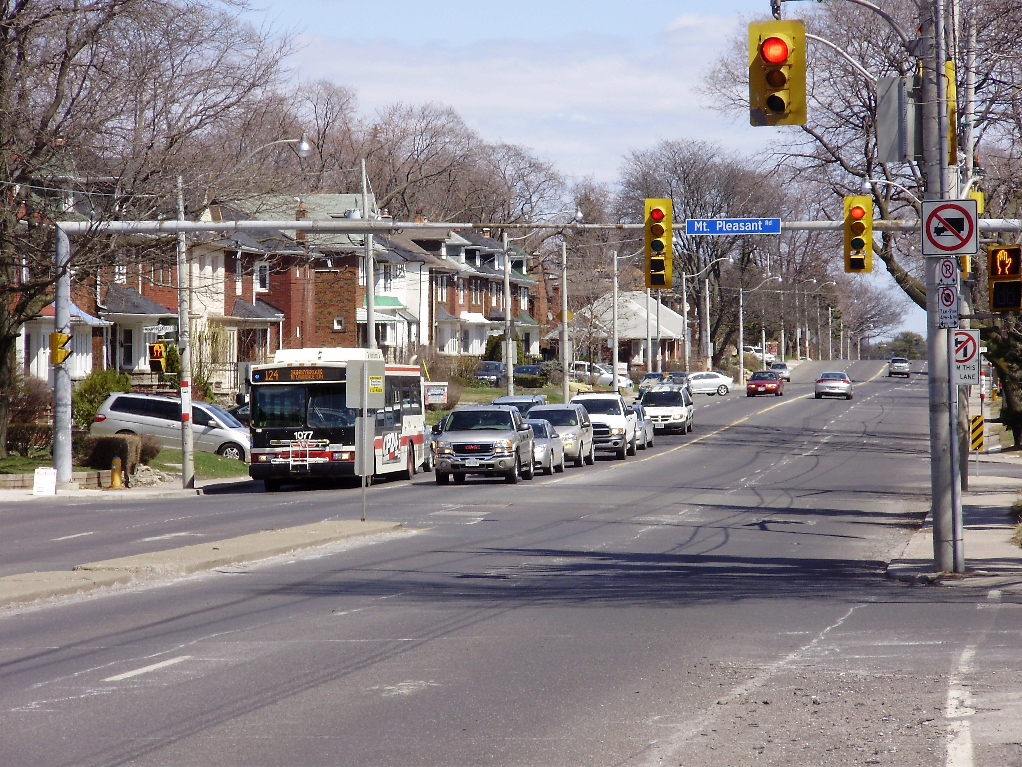 TTC bus #1077, serving the 124 Sunnybrook route, waits for a red light to change along Lawrence Avenue East at that road's intersection with Mt. Pleasant Road in Toronto, Ontario, Canada.